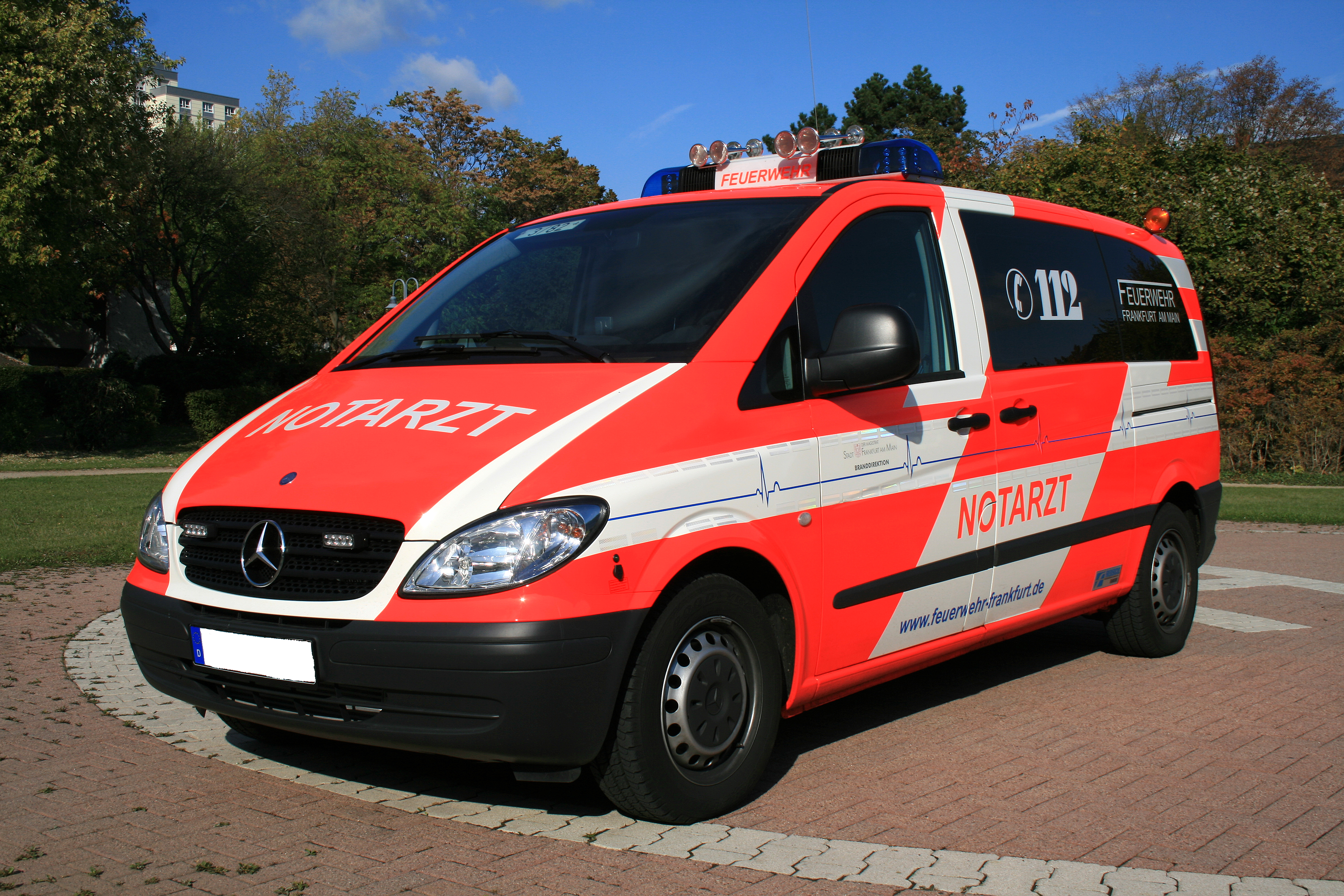 Physician Response Vehicle from Firedepartment Frankfurt.